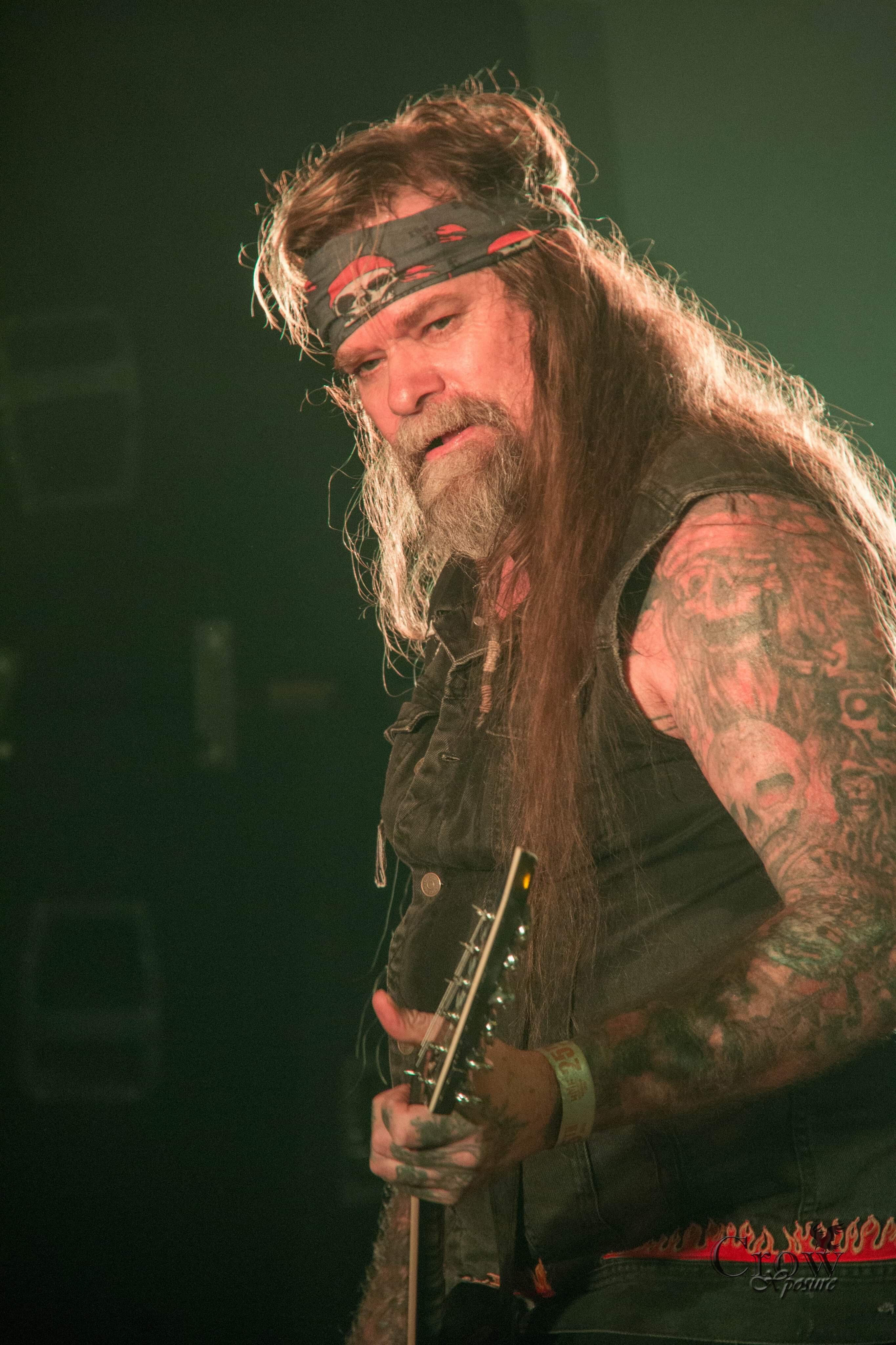 Copyright Crow XP used with permission